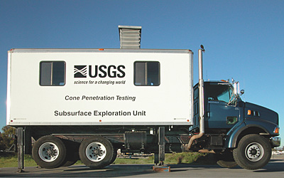 CPT Truck Author: USGS